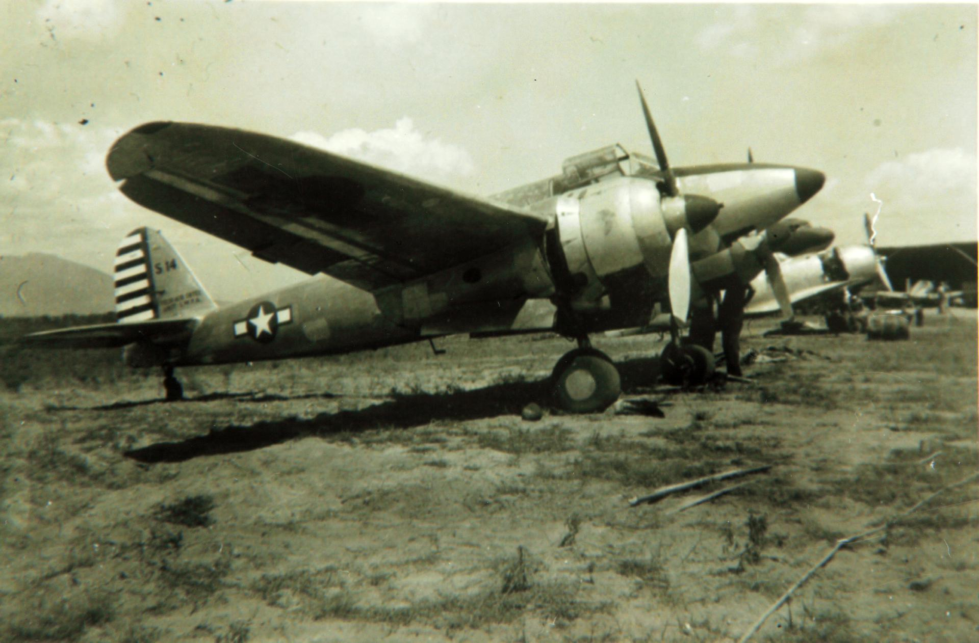 A Kawasaki Ki-45 "Nick" fighter painted in U.S. Army Air Forces markings following the surrender of Japan.